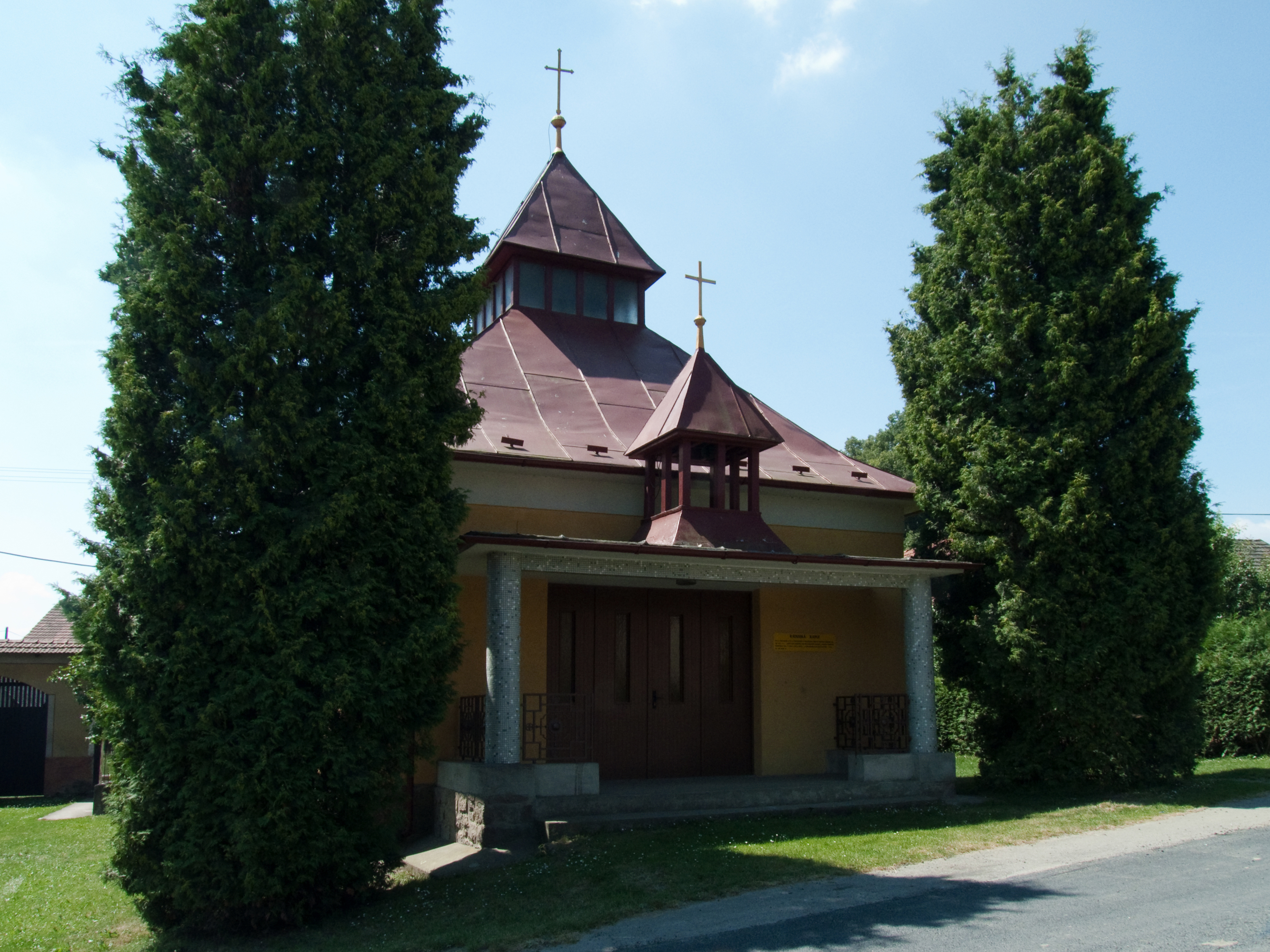 Chapel in the village of Rataje, Benešov district, Czech Republic from the 1950's